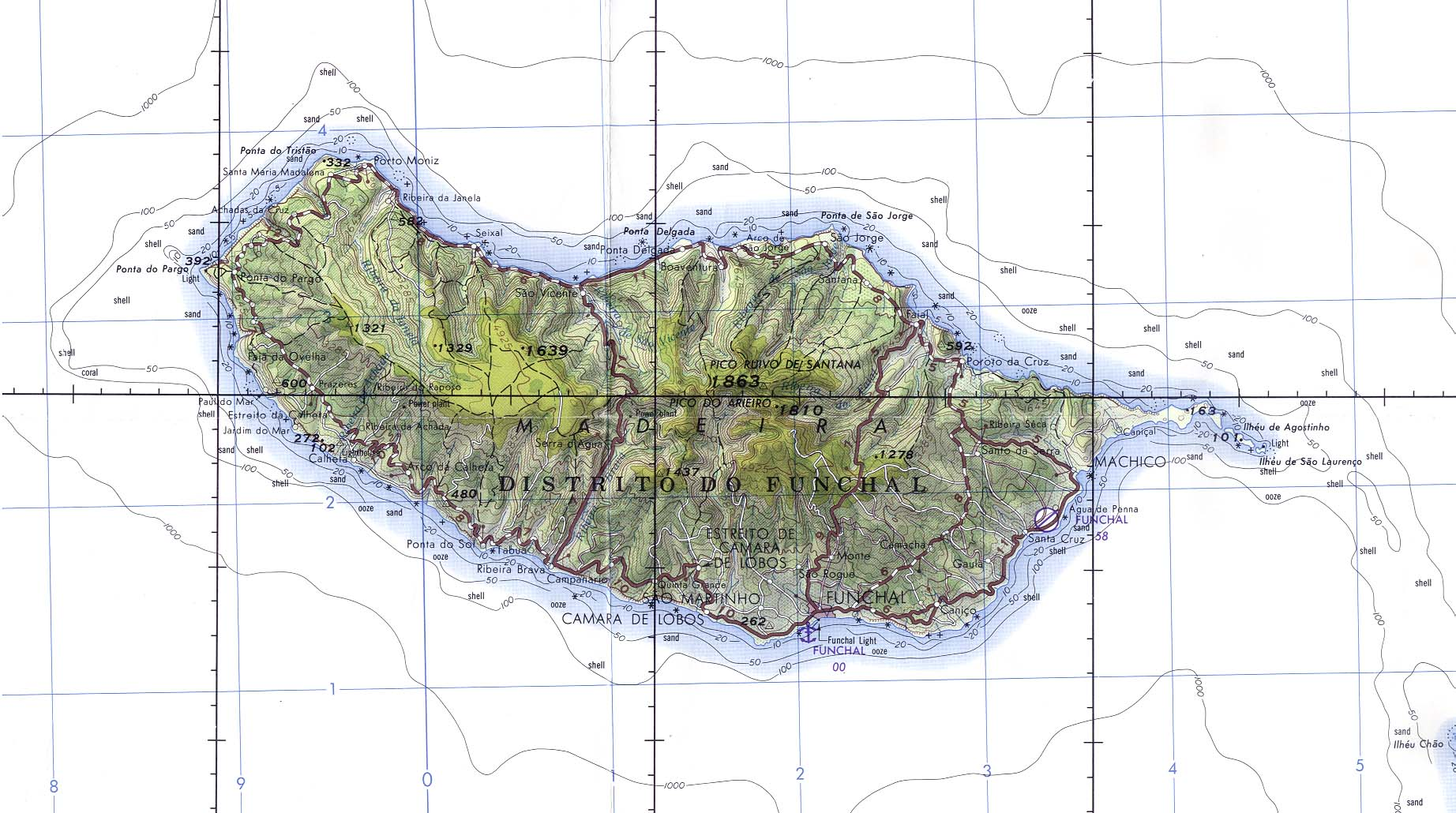 Madeira (Portugal) Original scale 1:250,000. Portion of Joint Operations Graphic (Ground) sheet NI 28-13, U.S. Defense Mapping Agency 1976 (325K) Not for navigational use